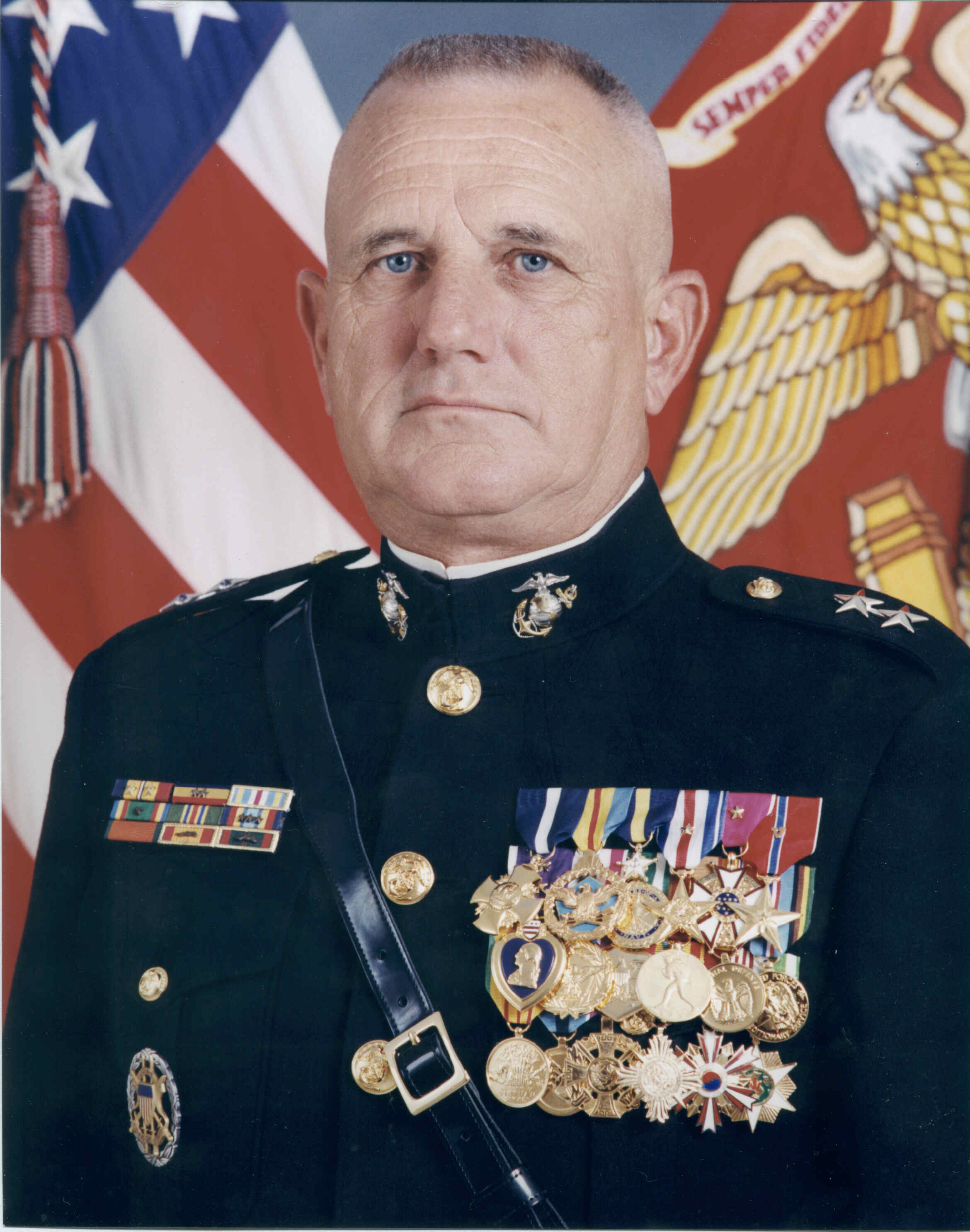 Major General Ray L. Smith, USMC (ret.)